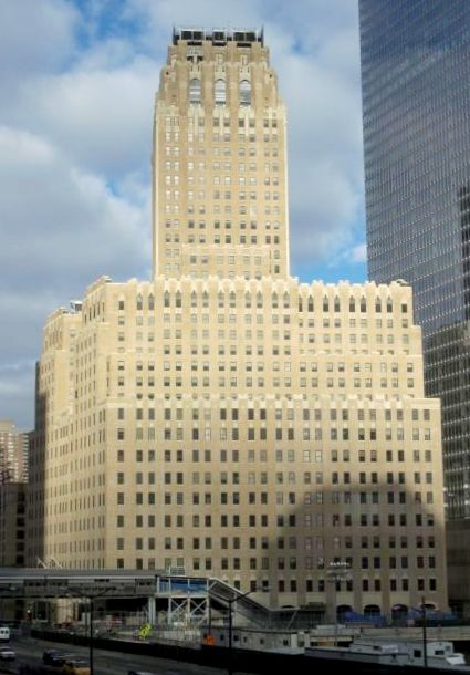 Barclay-Vesey Telephone Building viewed from West St. Photo by author.